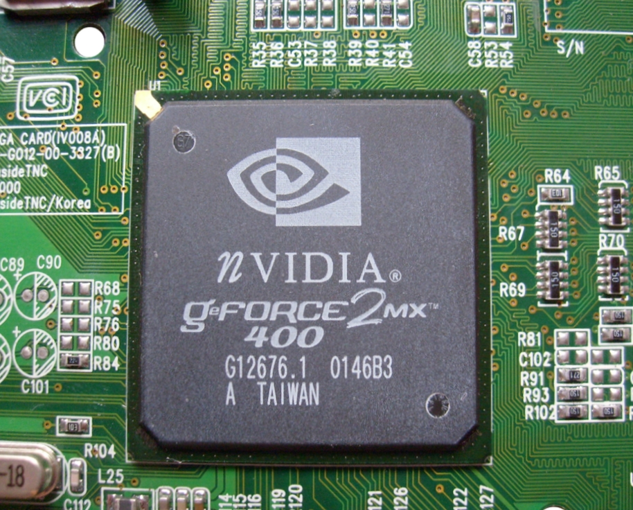 GeForce 2 MX 400 GPU